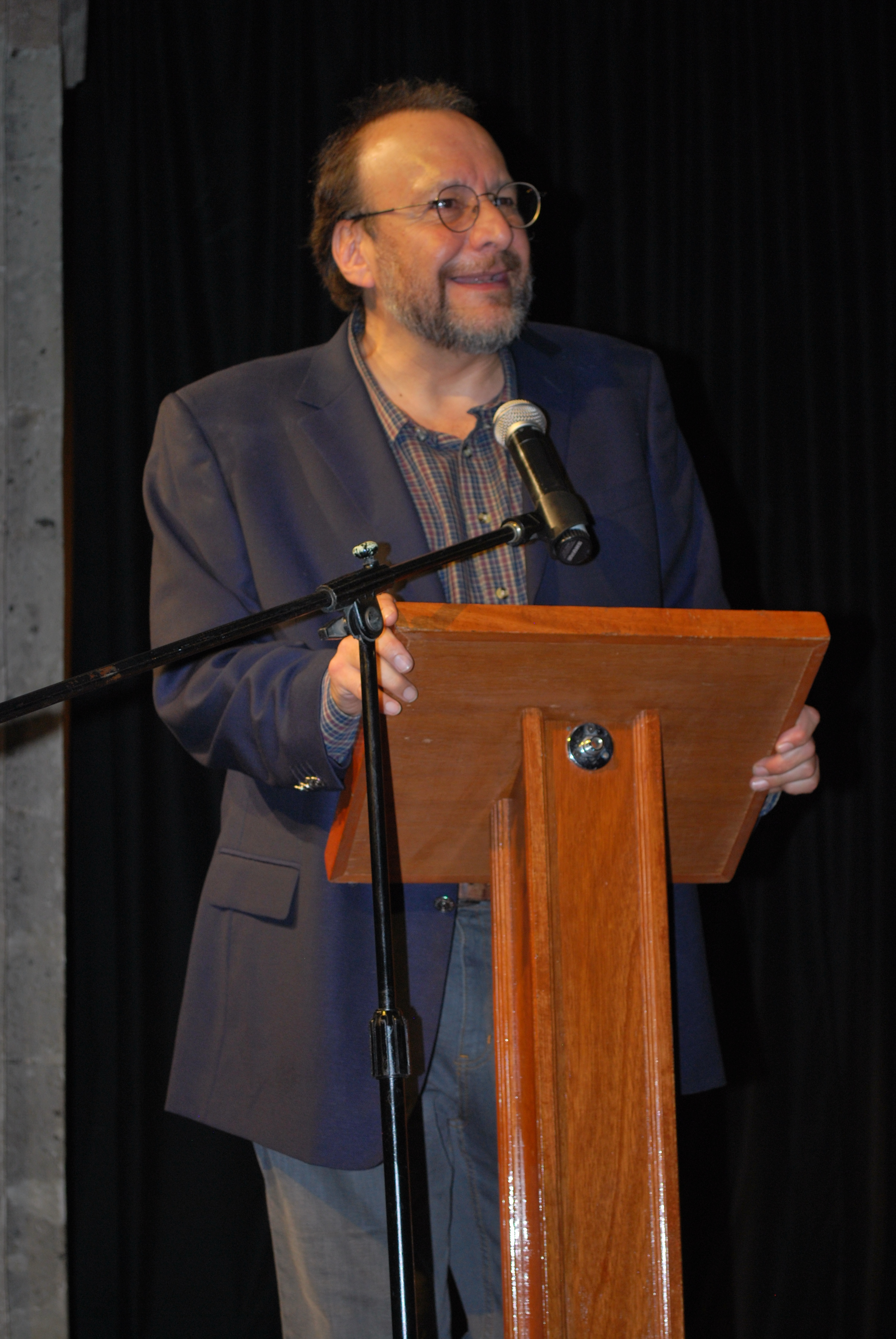 Luis Argudín at the 3 Muestras Plásticas at the exhibit of three artists at the Museo de la Secretaría de Hacienda y Crédito Público